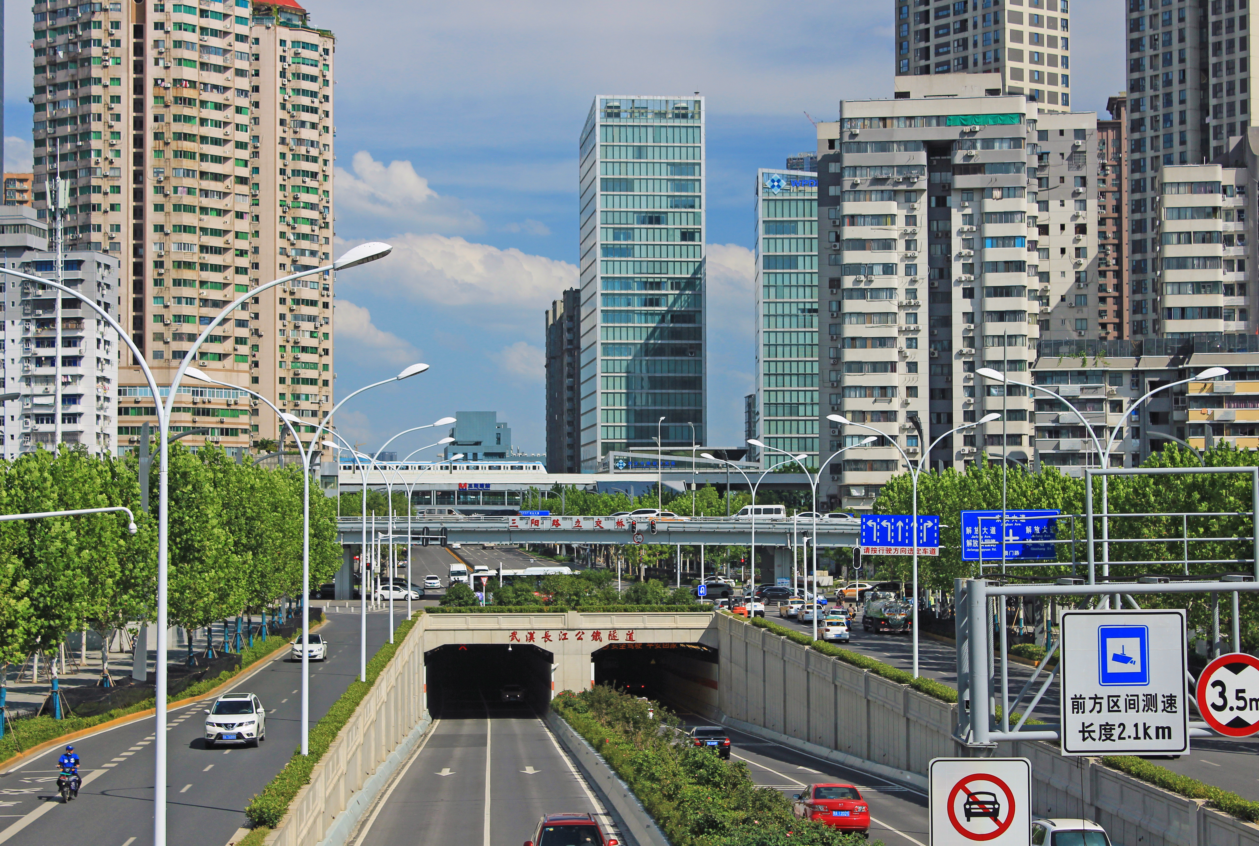 Wuhan Yangtze River Tunnel of Raod and Rail, Sanyang Road Overpass, and Wuhan Metro Line 1